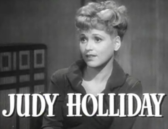 Cropped screenshot of Judy Holliday from the trailer for the film Adam's Rib.